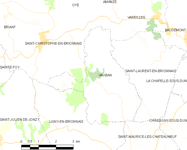 Map of French municipality